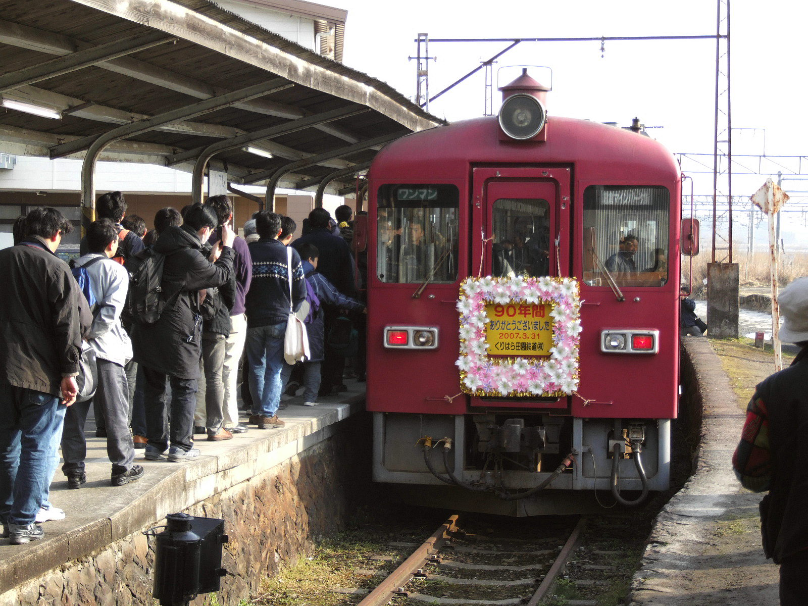 First train on the last day of Kurihara Den'en Railway Line. At Ishikoshi Station in Tome City, Miyagi Prefecture, Japan. The tail sign board says "Thank you for riding with us for 90 years - 2007.3.31 - Kurihara Den'en Railway Co."